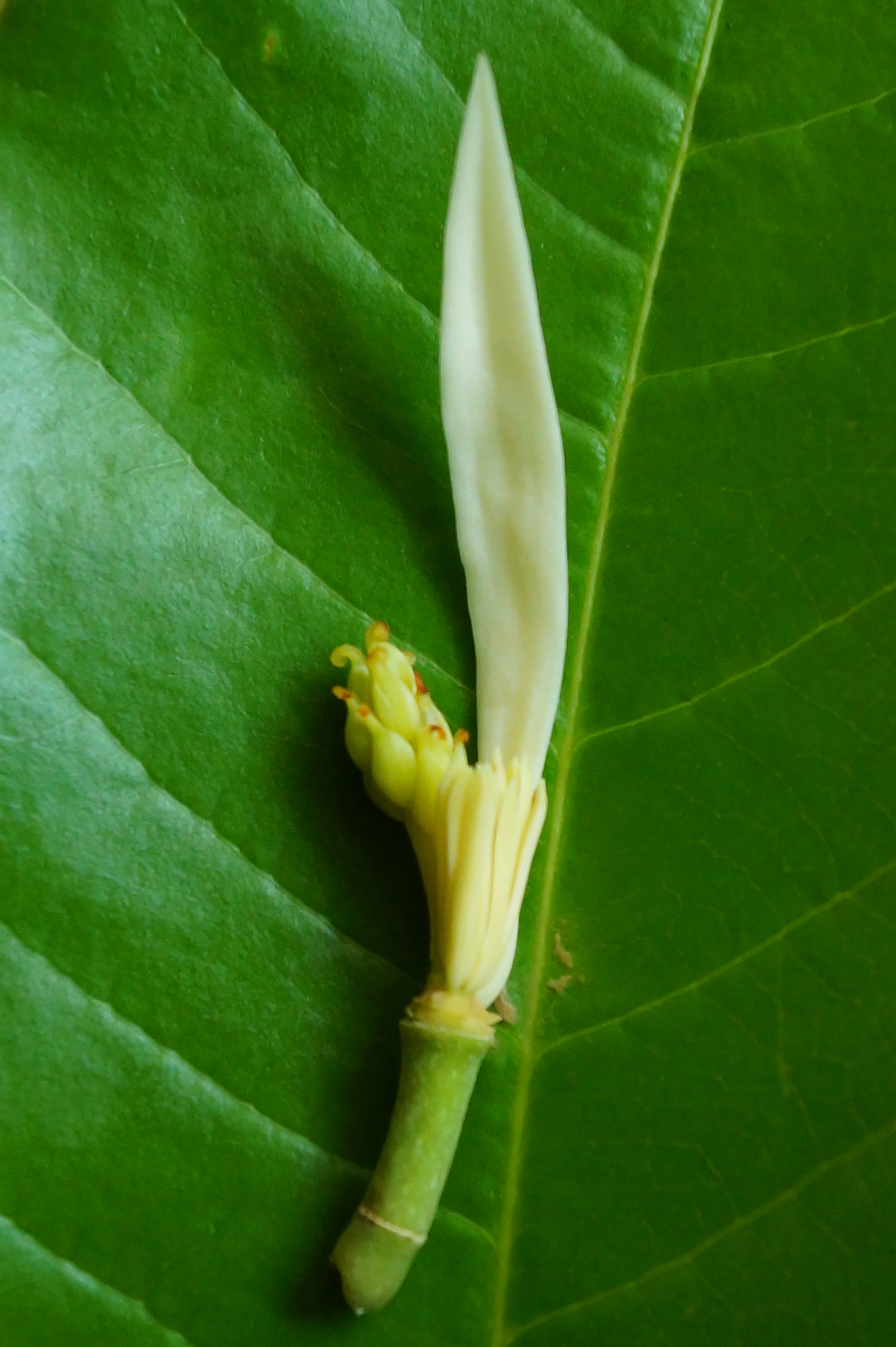 champak flower parts